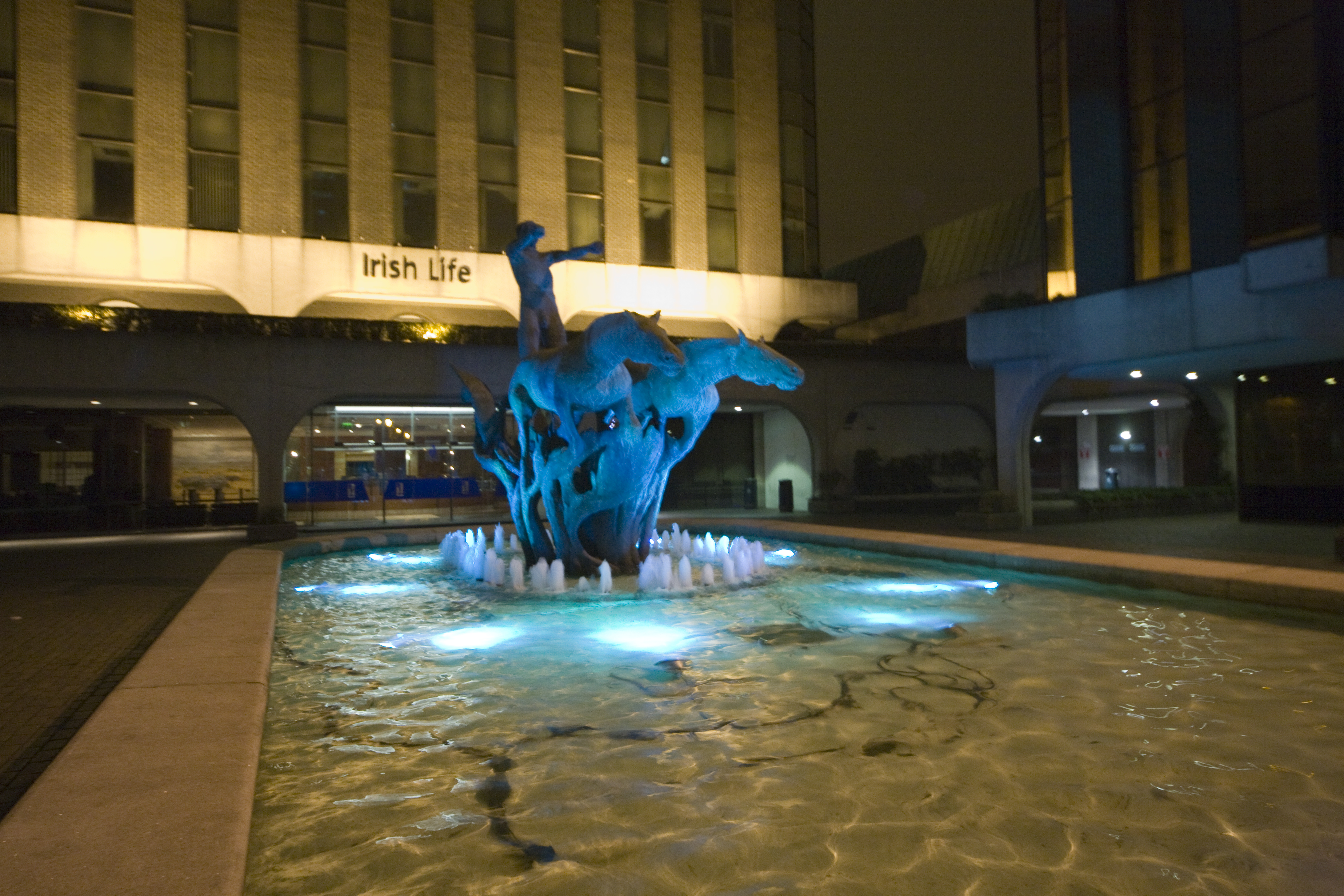 A view of the fountain out the front of the Irish Life Mall at night, 2007Dublin City At Night (Irish Life Mall)